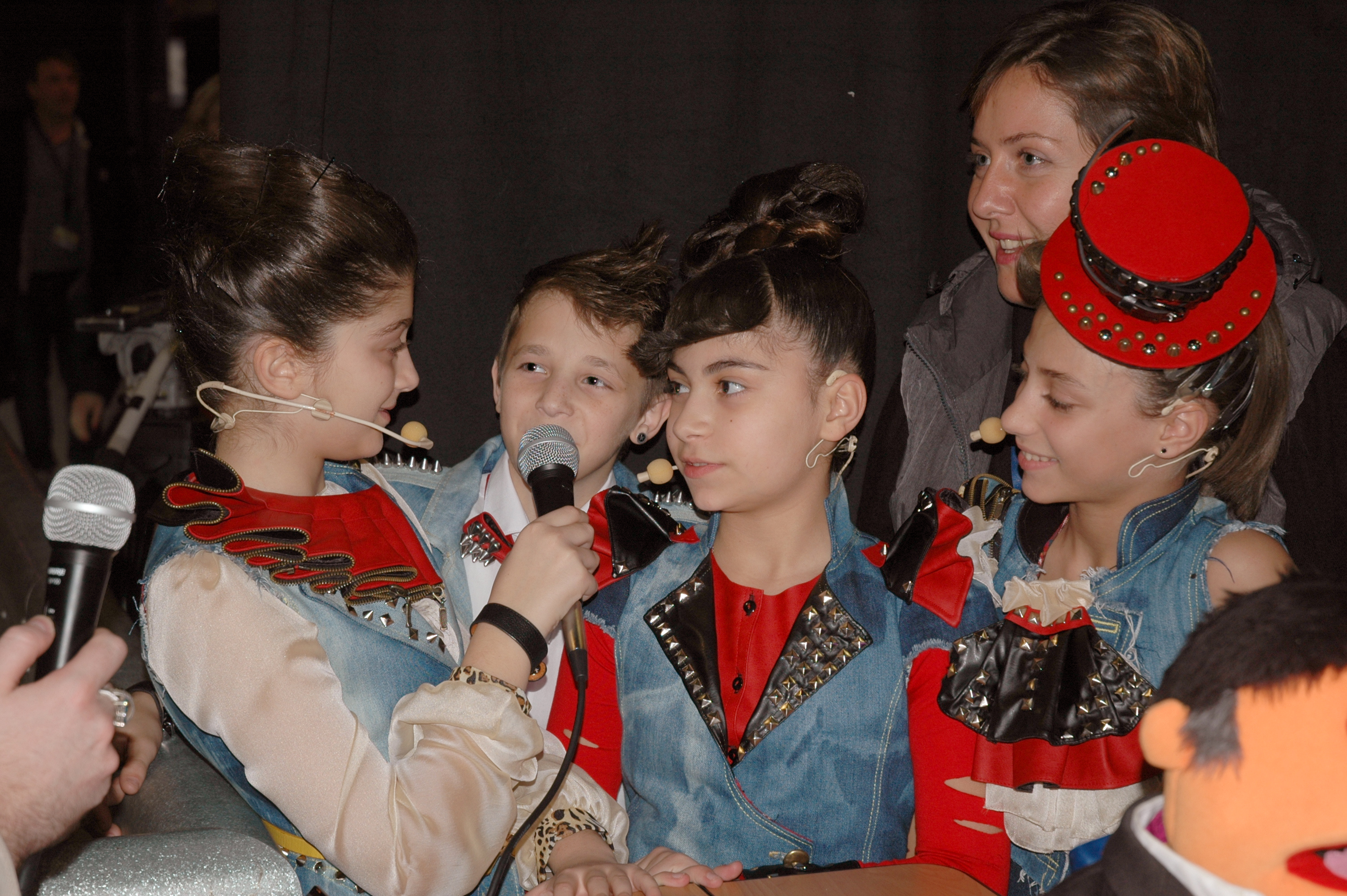 Funkids (Georgia). Junior Eurovision 2012